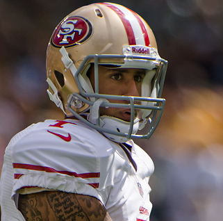 San Francisco 49ers vs. Green Bay Packers at Lambeau Field on September 9, 2012. Photo by Mike Morbeck.